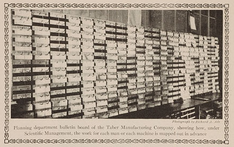 Planning department bulletin board in the Tabor manufacturing company, Philadelphia, 1911 (from The American Magazine, May 1911)